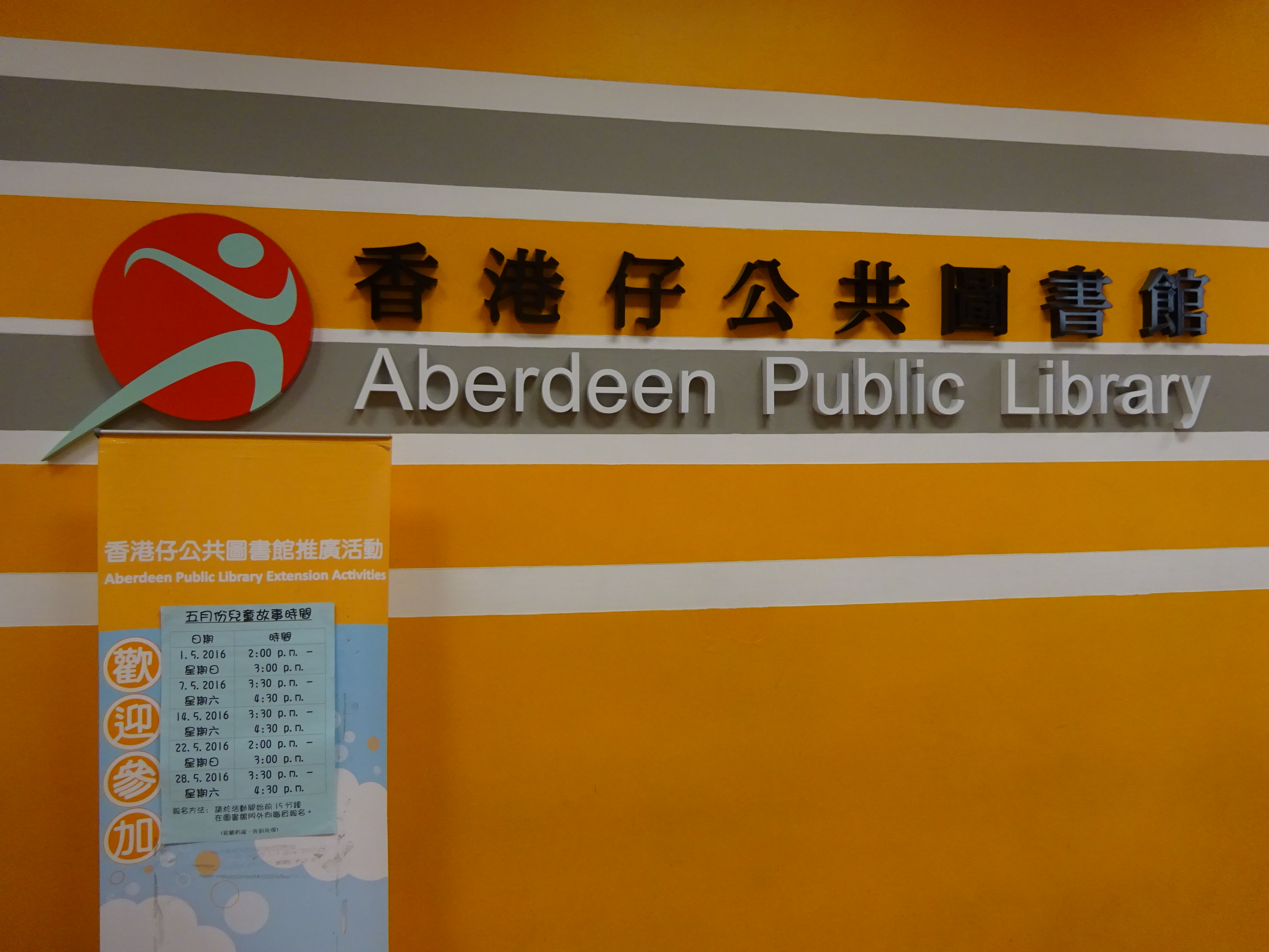 HK 香港仔公共圖書館 Aberdeen Pulic Library name sign in April 2016